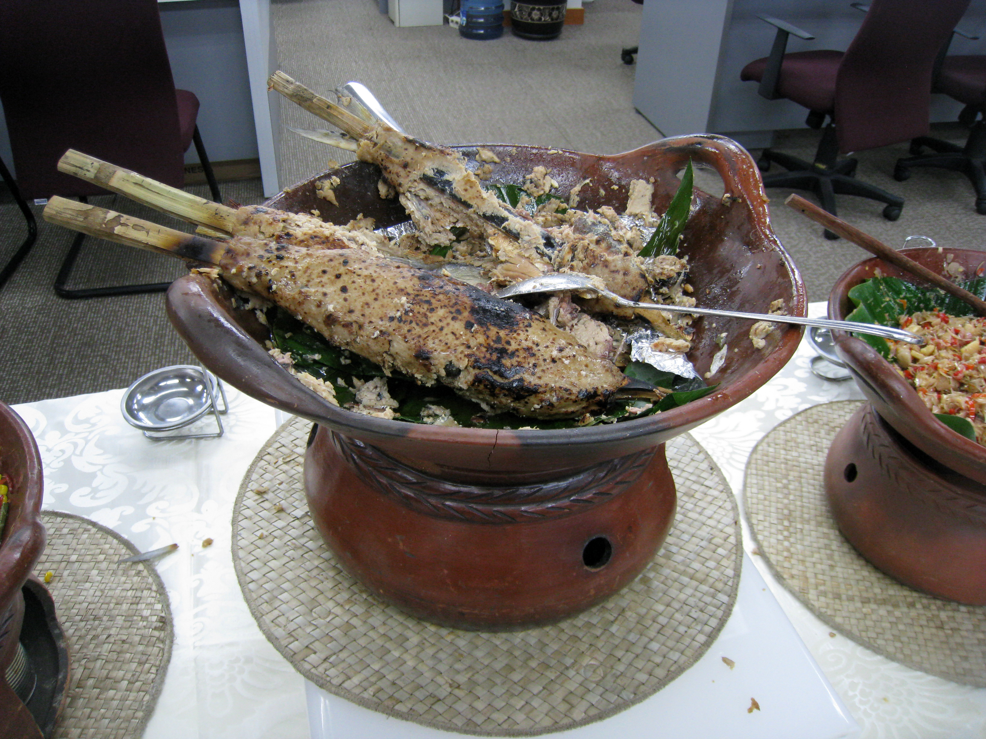 Sate Bandeng, deboned and spiced milk fish served in bamboo skewer. Specialty of Banten, Indonesia. Served in a prasmanan buffet party in Jakarta.